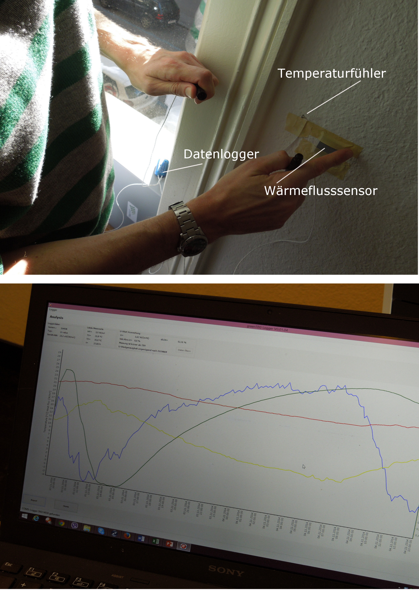 U-Value Kit by greenTEG: measurement set-up and software